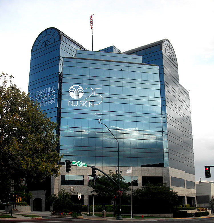 NuSkin Building on Center Street in downtown Provo, Utah